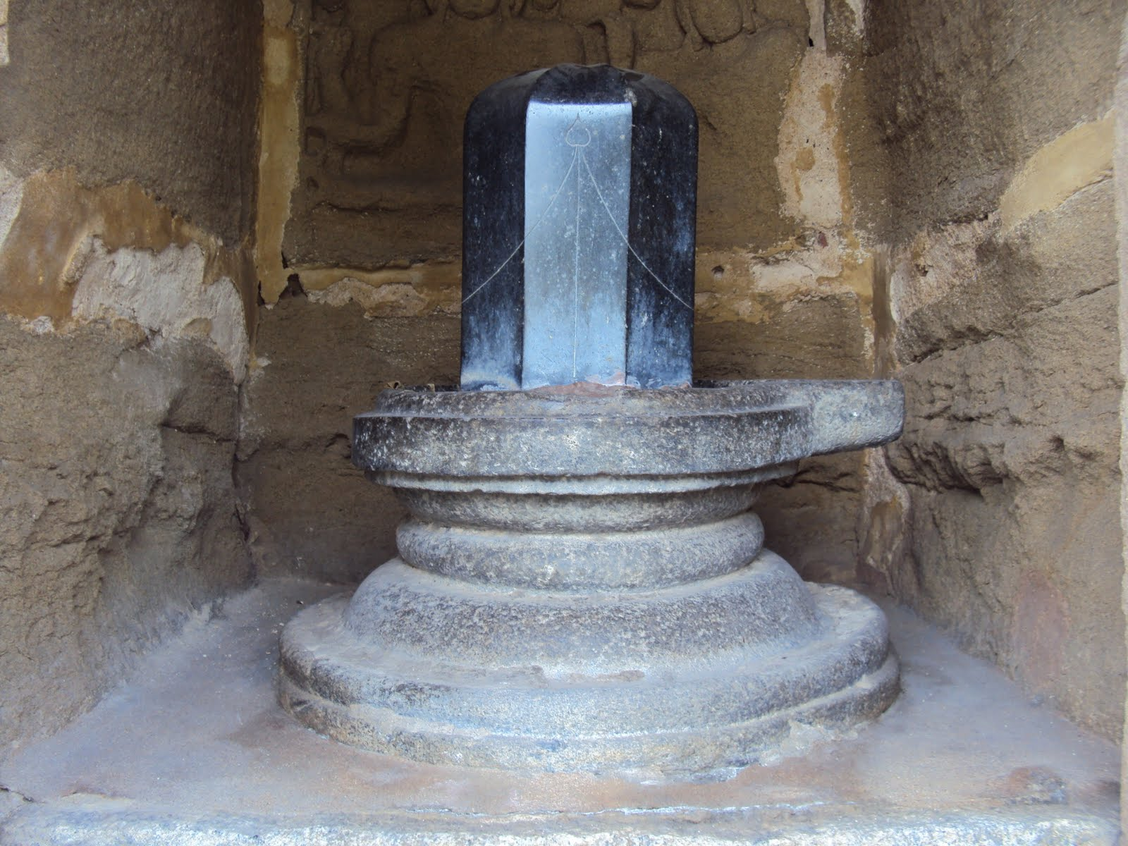 Kanchi_Kailasanathar_Temple Lord Siva Statue Kanchi_Kailasanathar_Temple